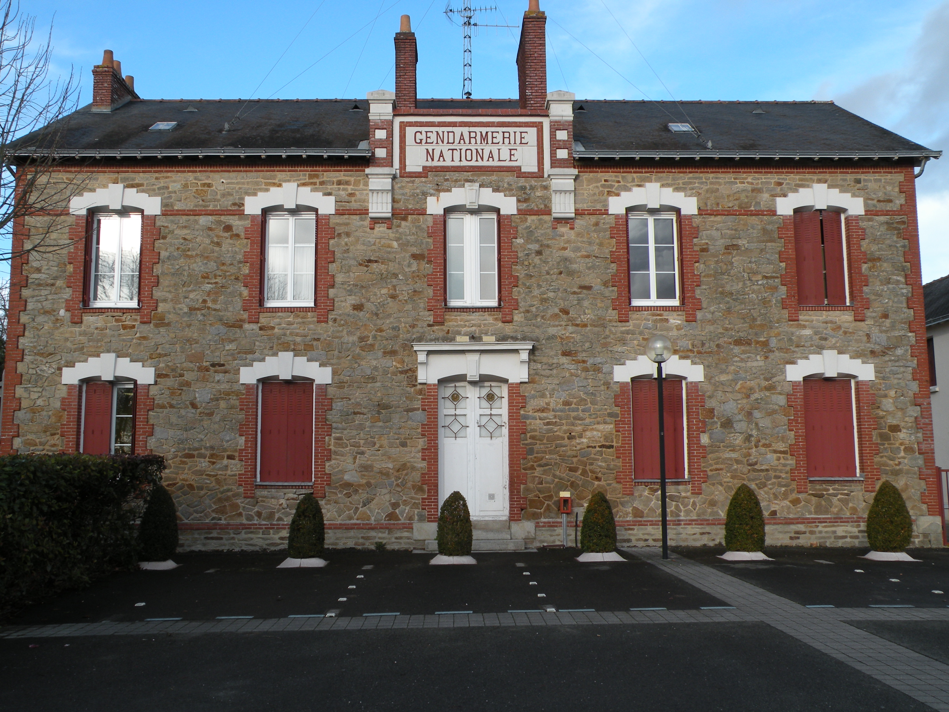 Gendarmerie station of Sautron